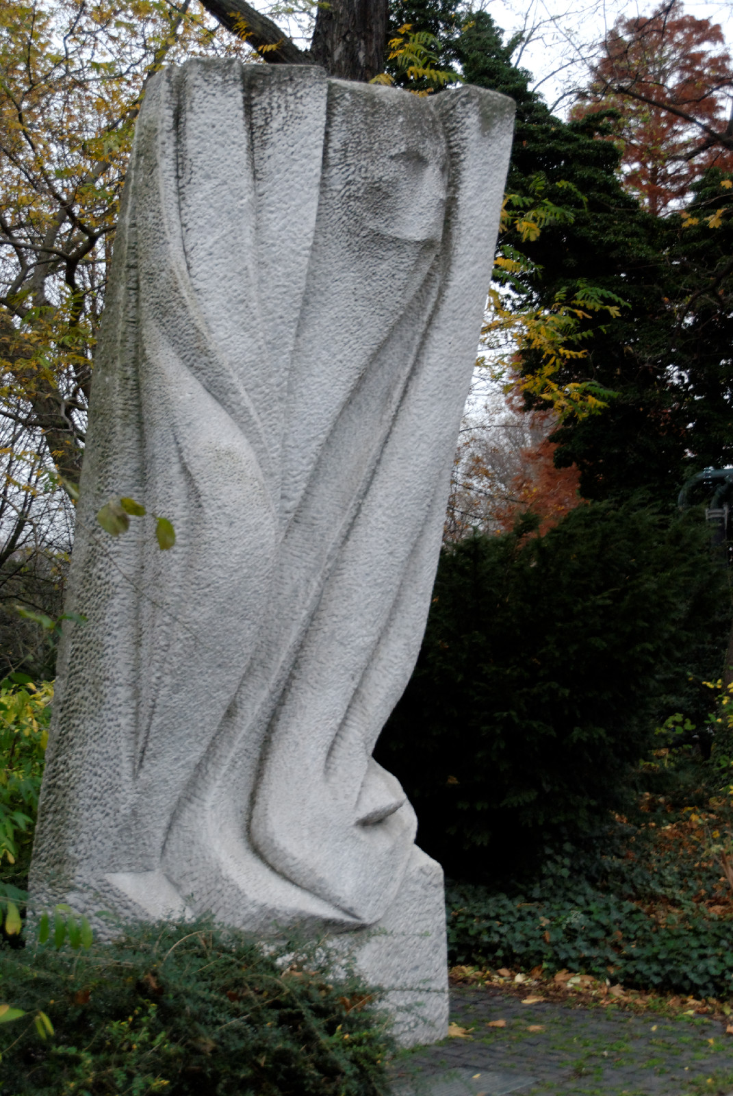 Statue for Gustaf Gründgens in Düsseldorf-Stadtmitte, Germany